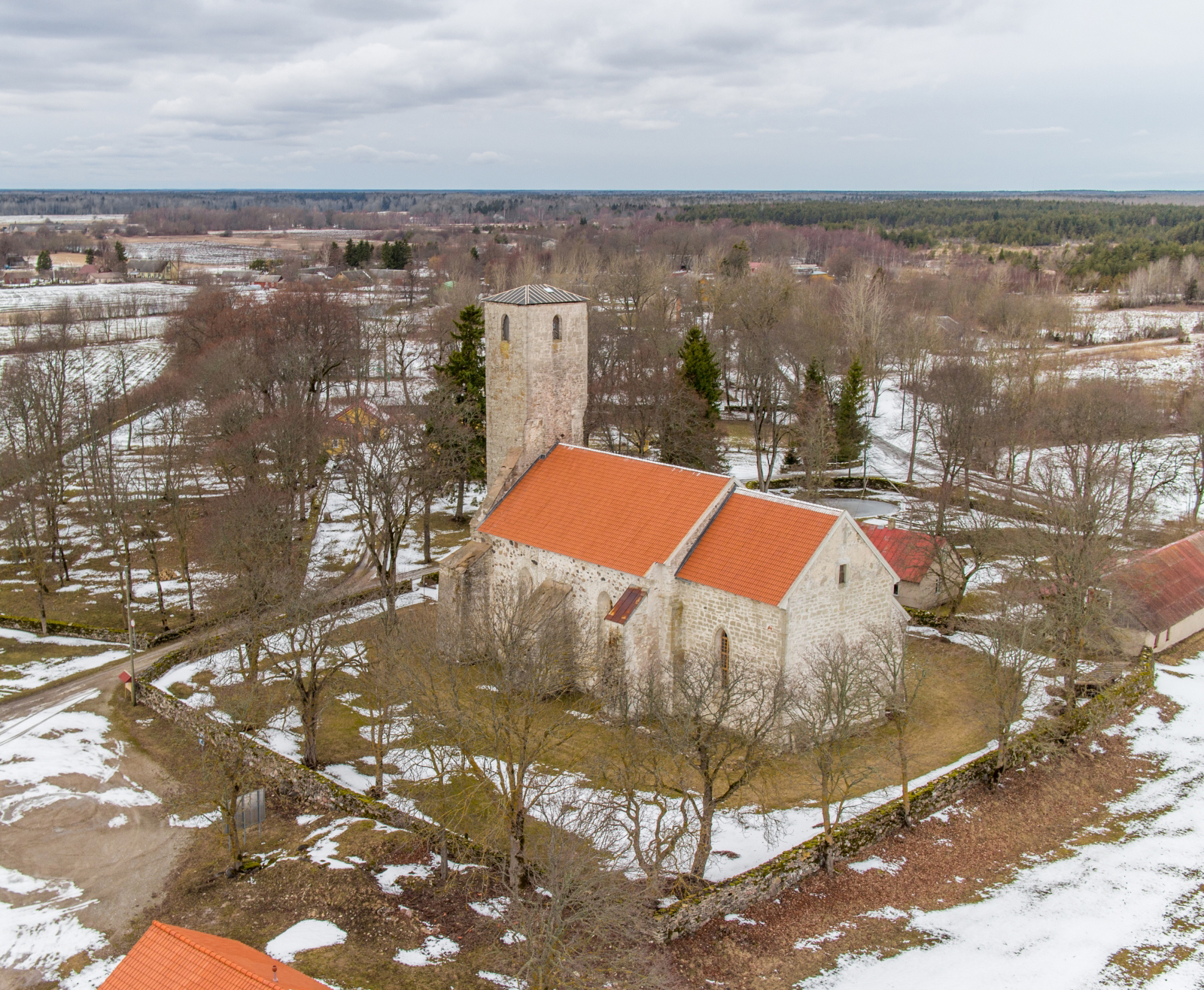 Püha Church in Pihtla Parish, Saaremaa.